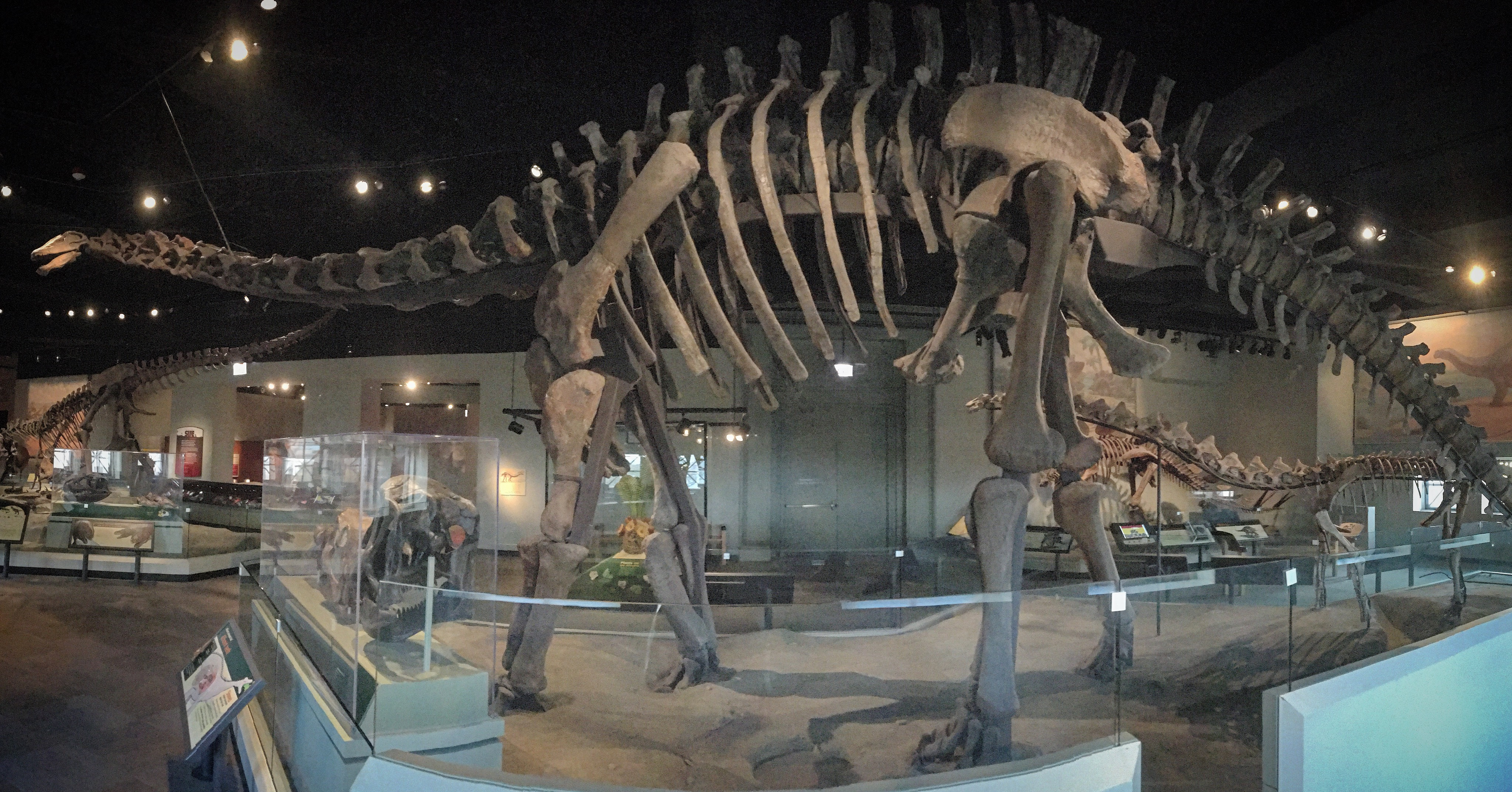 Photograph of Apatosaurus fossil at the Field Museum of Natural History, Chicago, IL, 2017